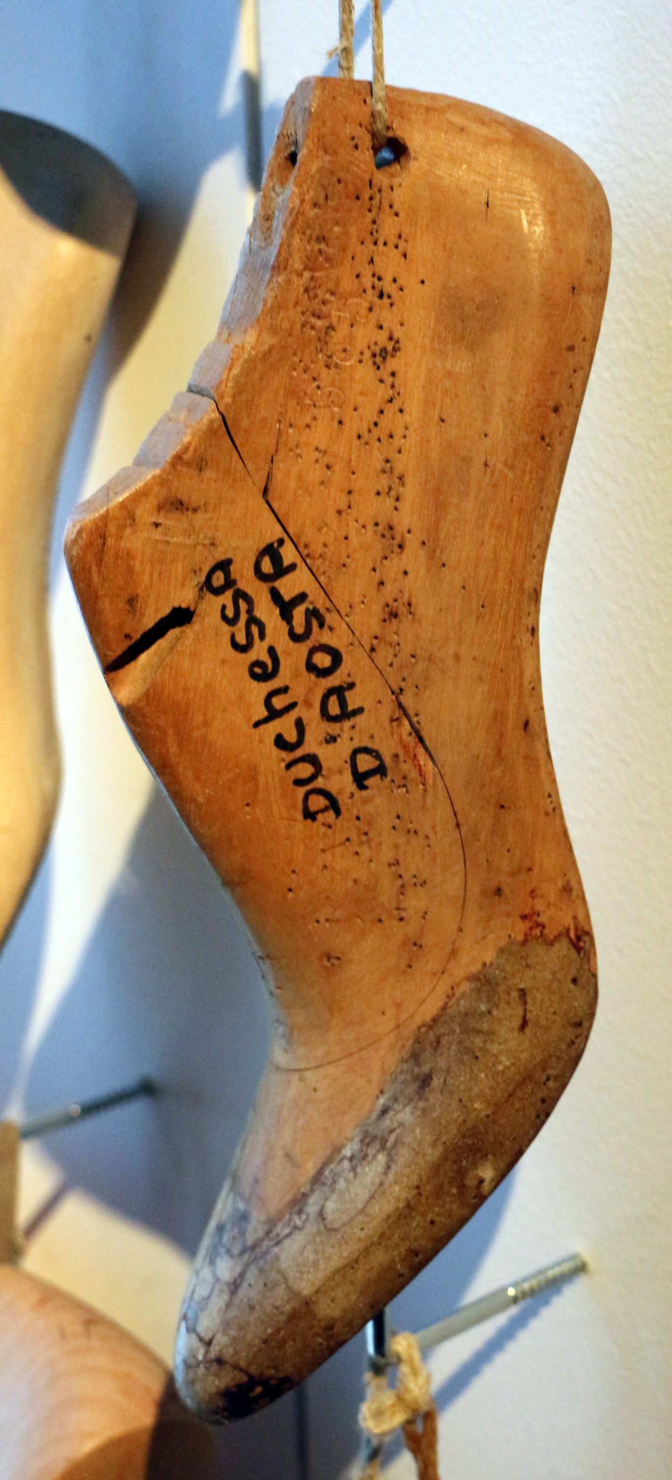 Museo Salvatore Ferragamo